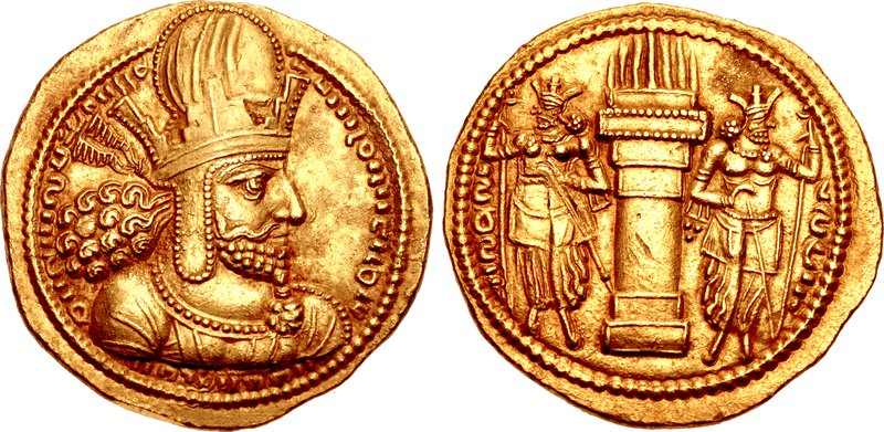 Gold coin of Shapur I, Ctesiphon mint.